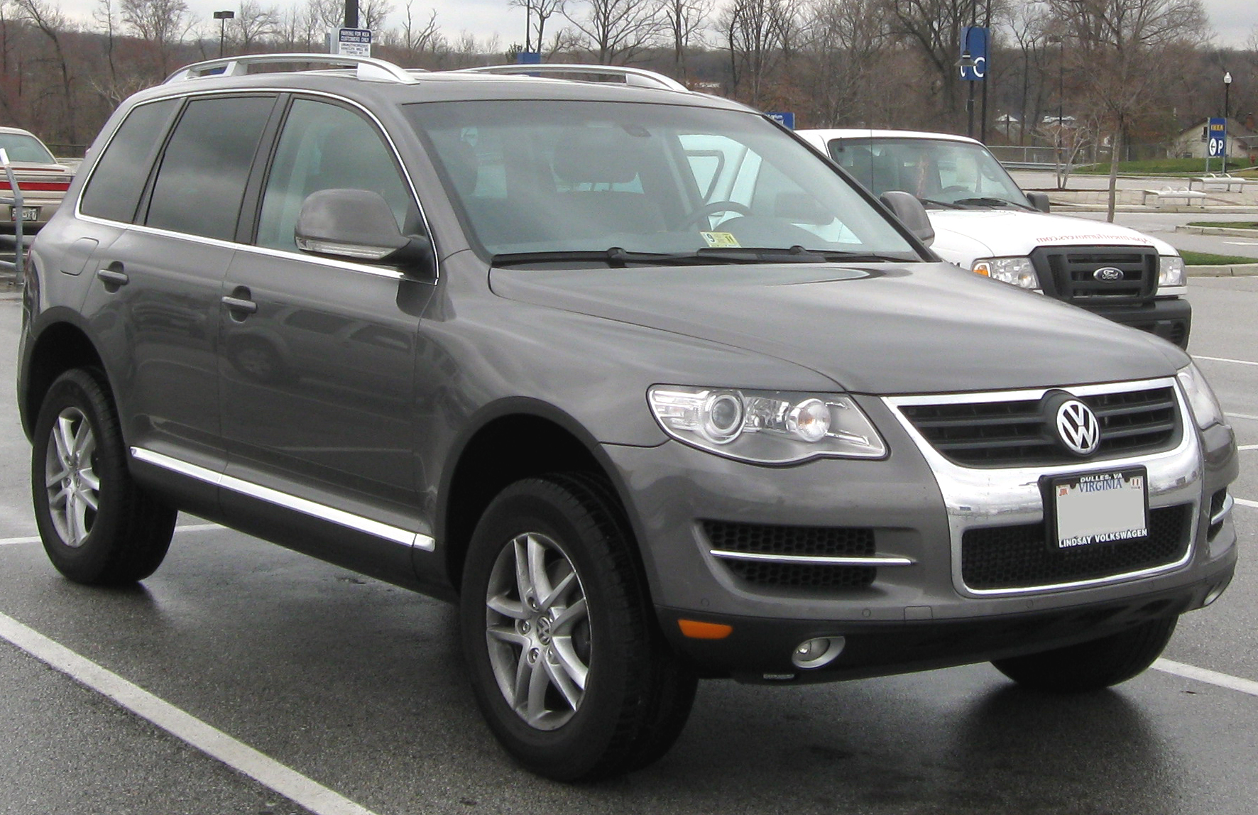 2008-2010 Volkswagen Touareg photographed in College Park, Maryland, USA.